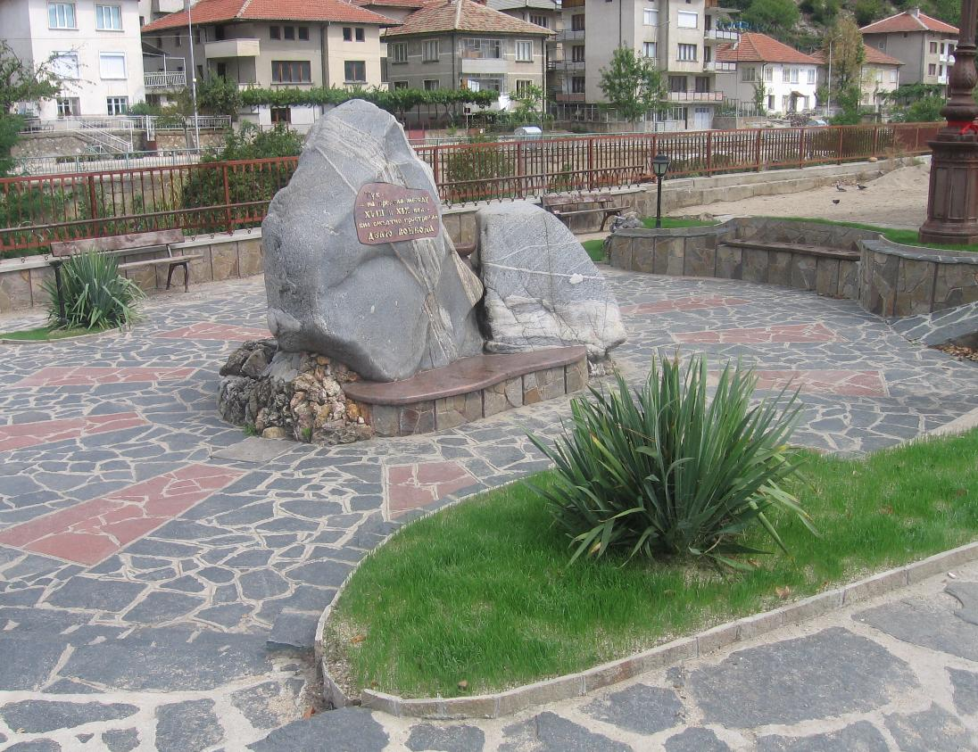 Delyo haydutin monument in Zlatograd, where he was mortally wounded.